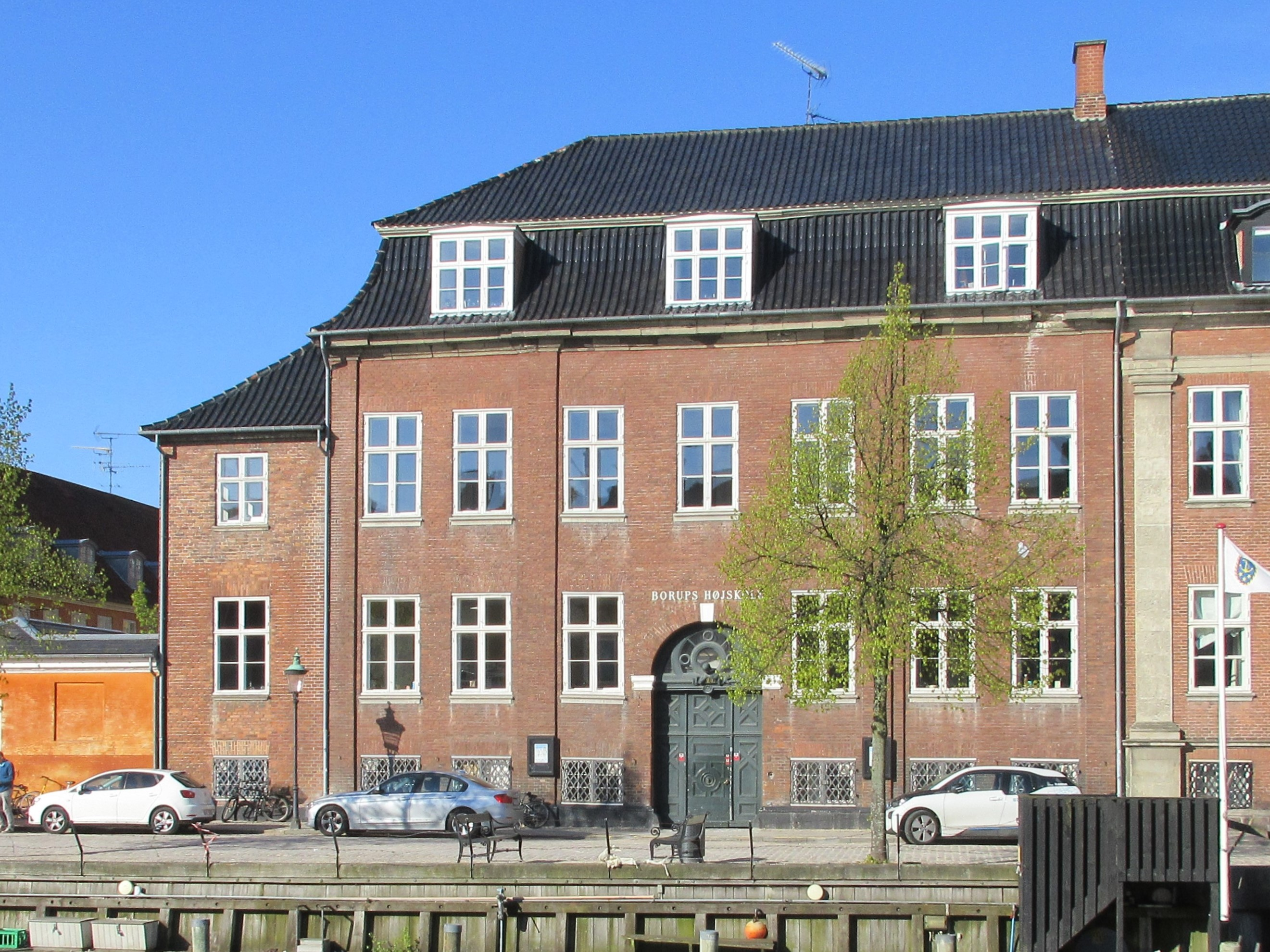 Johan Borups Højskole in Copenhagen, Denmark